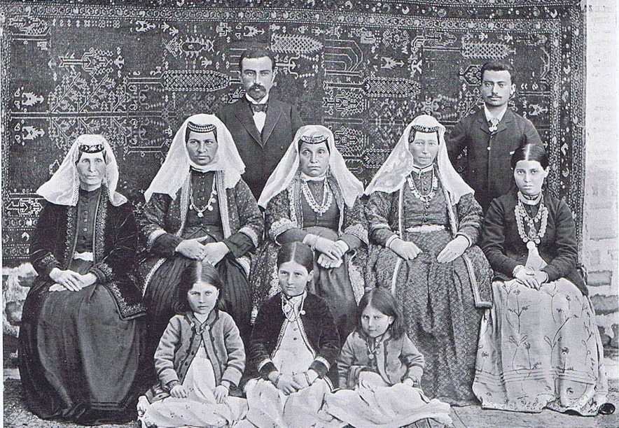 Armenian traditional costumes and outfits dated 1902